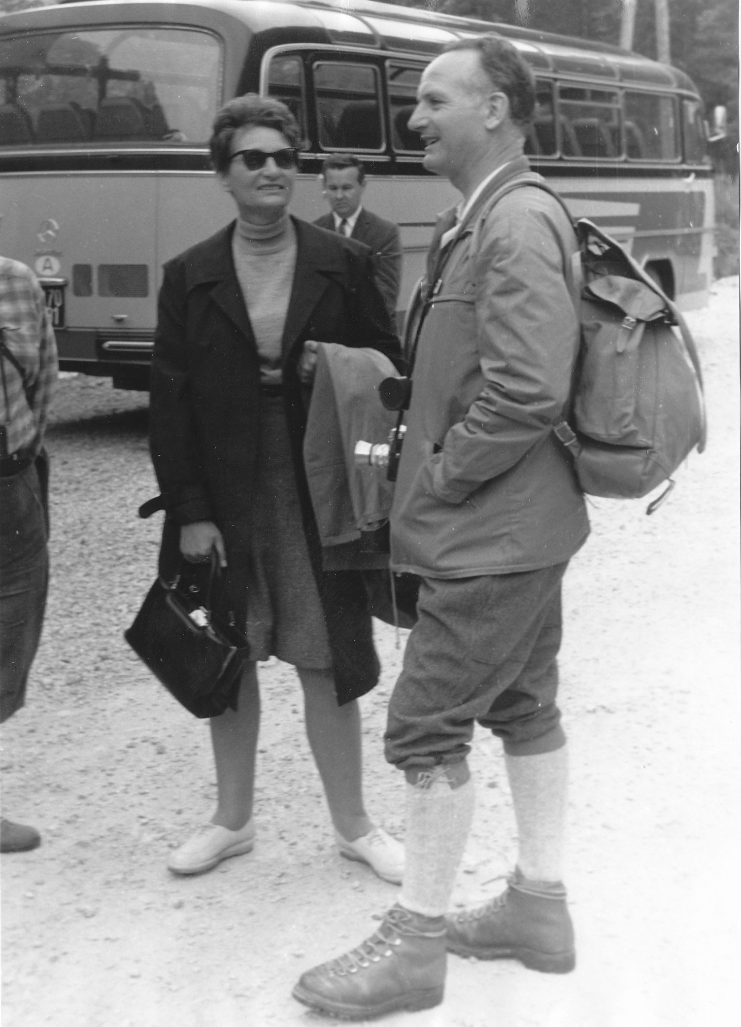 Pisidiologist J.G.J. (Hans) Kuiper (Netherlands), at the right. At the congress of Unitas Malacologica Europaea (now Unitas Malacologica), Vienna 1968